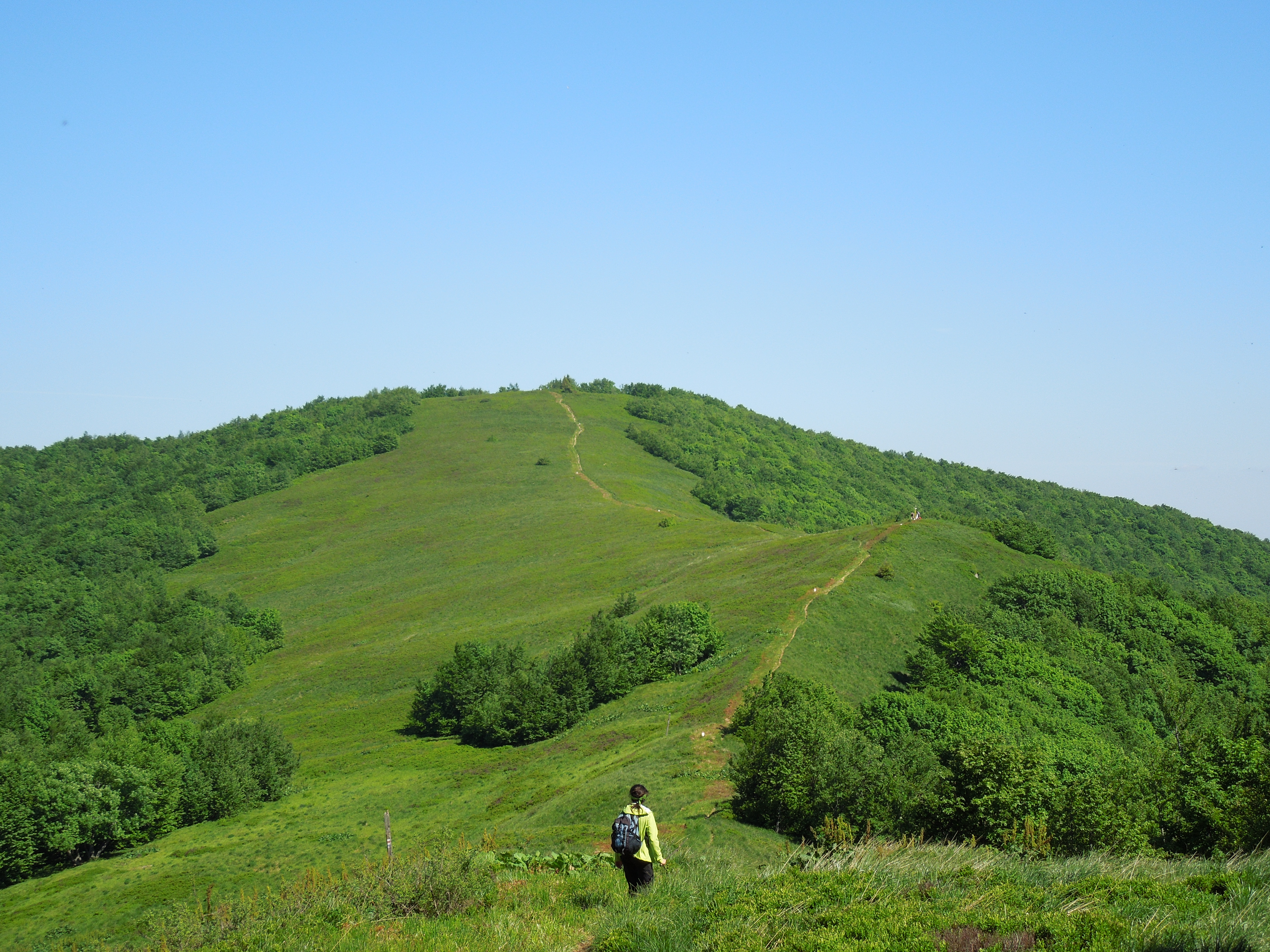 Ďurkovec in June This is a photography of Natura 2000 protected area with ID SKUEV0229 This is a photography of Natura 2000 protected area with ID SKCHVU002 This is a photography of Natura 2000 protected area with ID PLC180001